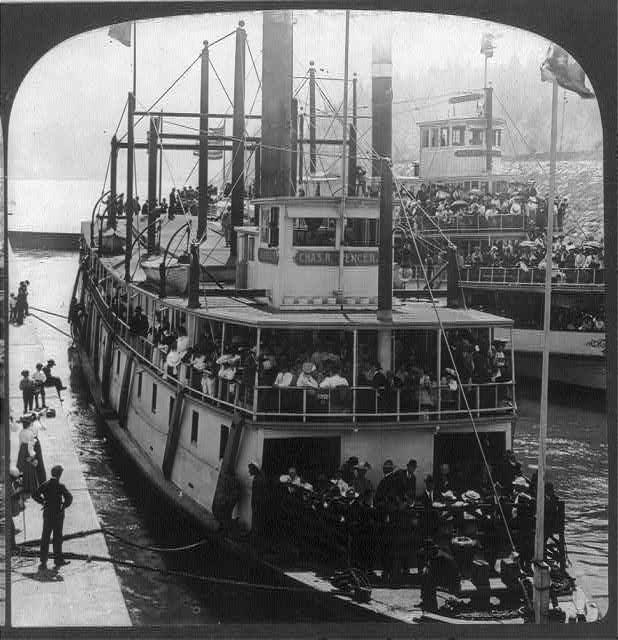 Sternwheelers Charles R. Spencer and Bailey Gatzert in Cascade Locks, on the Columbia River, May 26, 1896. From an old stereograph. The archival source misidentifies the vessel in the foreground as the Chas. Encer and provides no identification for the vessel in the background. These vessels were unique on the Columbia River and are beyond doubt Charles R. Spencer and Bailey Gatzert. Image name says 1896. The correct year was 1906. (Locks were not complete in May 1896, and the Charles R. Spencer had not been built yet at that time.)